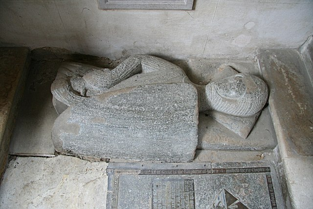 Sir Stephen de Penchester, near to Penshurst, Kent, Great Britain. The upper half of a Purbeck marble effigy of Sir Stephen de Penchester who died in 1299, in the Sidney Chapel of St.John the Baptist's church